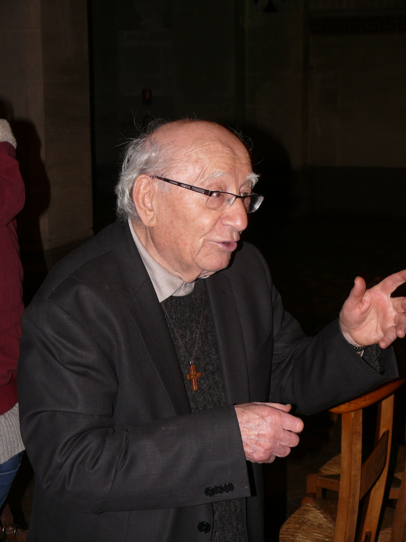 The Father Denis Sonet in Lille (Nord, France).